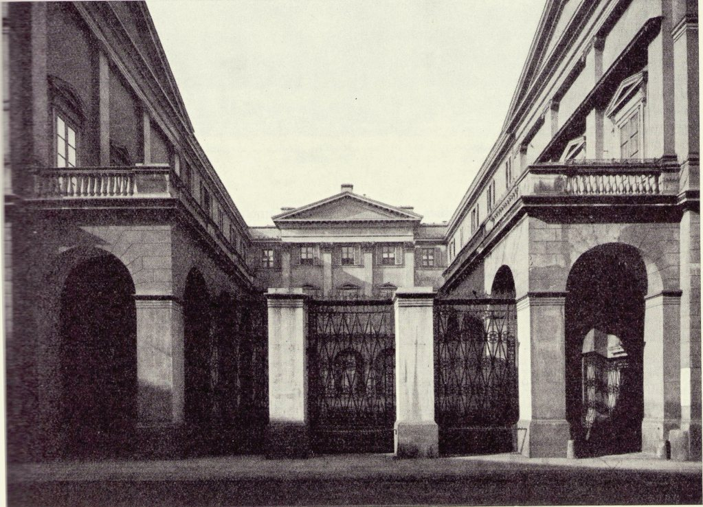 Facade of the now demolished palazzo Arese Bethlem, via Monte di Pietà, Milan